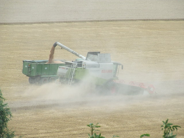 Dust and harvest. Combine emptying its contents into a trailer as seen from the walls of Framlingham Castle Framlingham Suffolk.